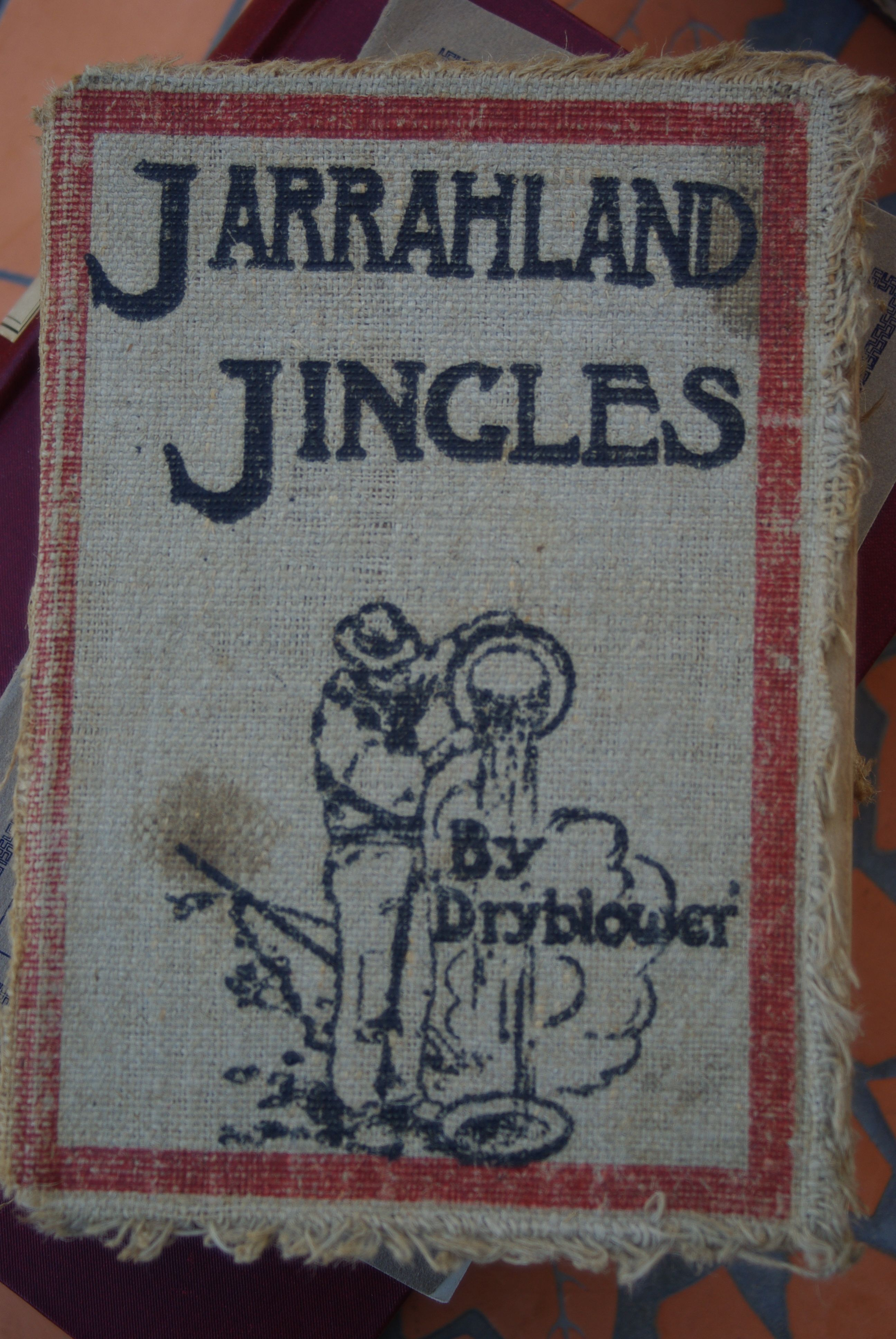 Photo of hessian printed cover of book Jarrahland Jingles published in 1908